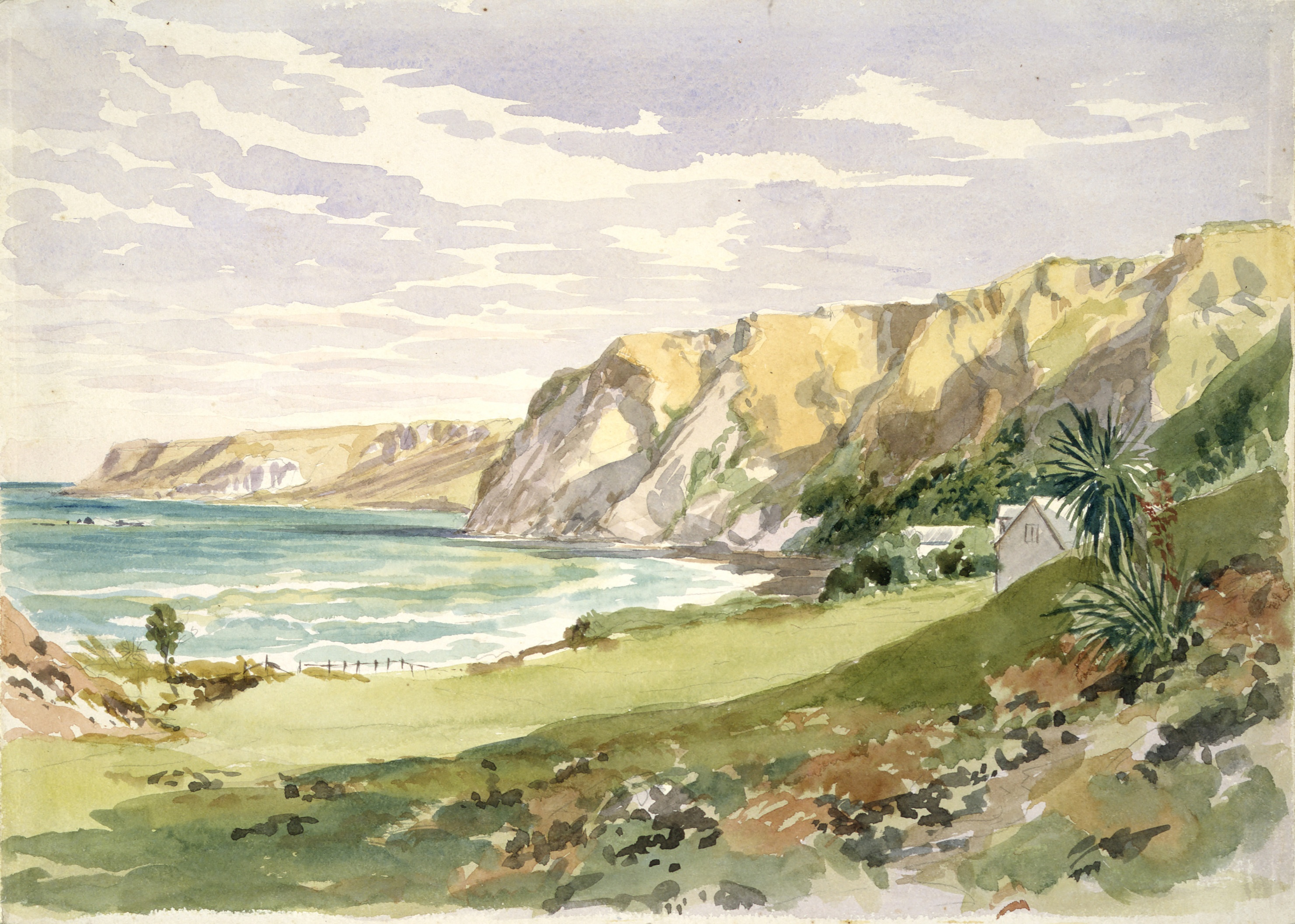 Gore Bay. View looking south along the bay towards the cliffs dividing Gore Bay from Port Robinson, taking in Mrs Robinson's cottage (the two-storied cottage built for the wife of William "Ready-Money" Robinson), in 1868. Another building, possibly two, can be seen beyond Mrs Robinson's cottage. A cabbage tree is in the right foreground. Mrs Robinson's cottage is registered by the New Zealand Historic Places Trust as a Category II structure, with registration number 1769.